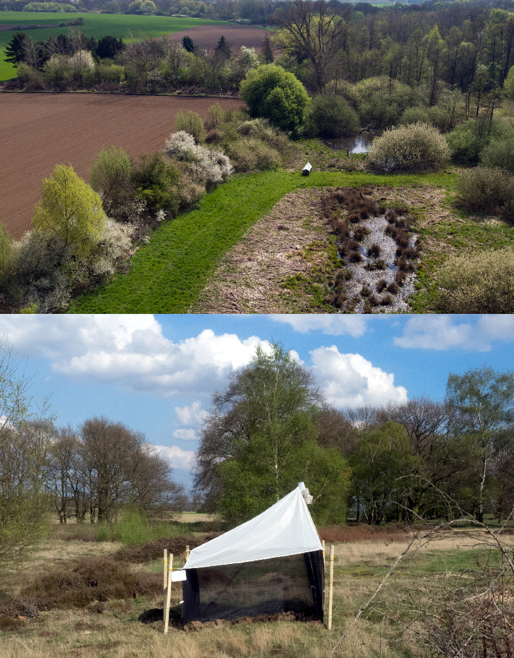 Malaise trap in a nature reserve in Western Germany